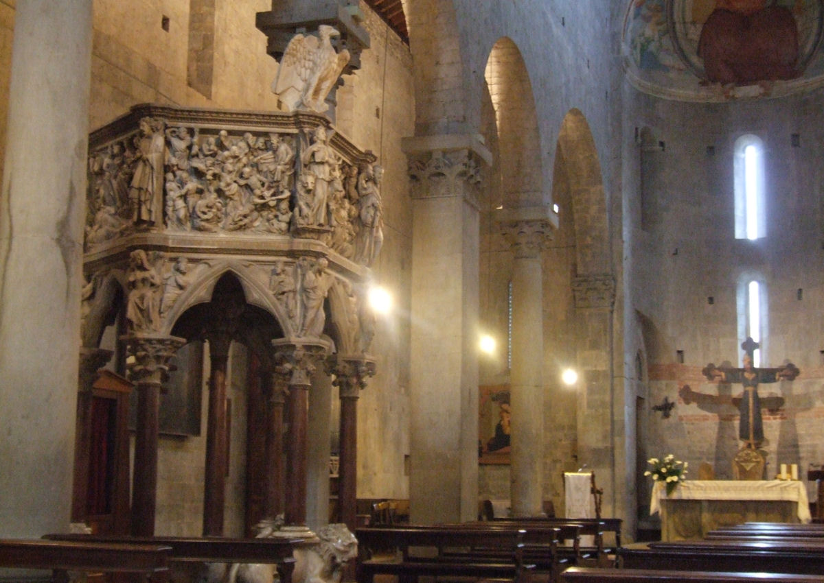 Chiesa Chiesa Sant' Andrea, Pistoia, Italy